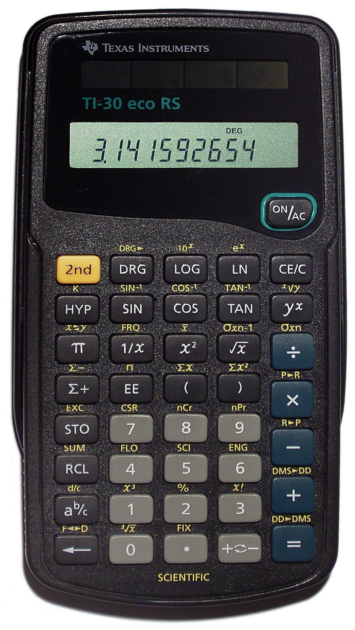 Texas Instruments TI-30 eco RS calculator